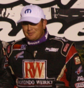 Brad Kuhn from Avon, Indiana on the podium at Angell Park Speedway. It was the 2006 and 2009 POWRi midget champion.